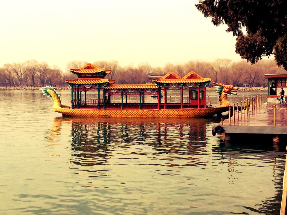 Dragon boat docked on lake at Summer Palace in Beijing, China on March 2014.